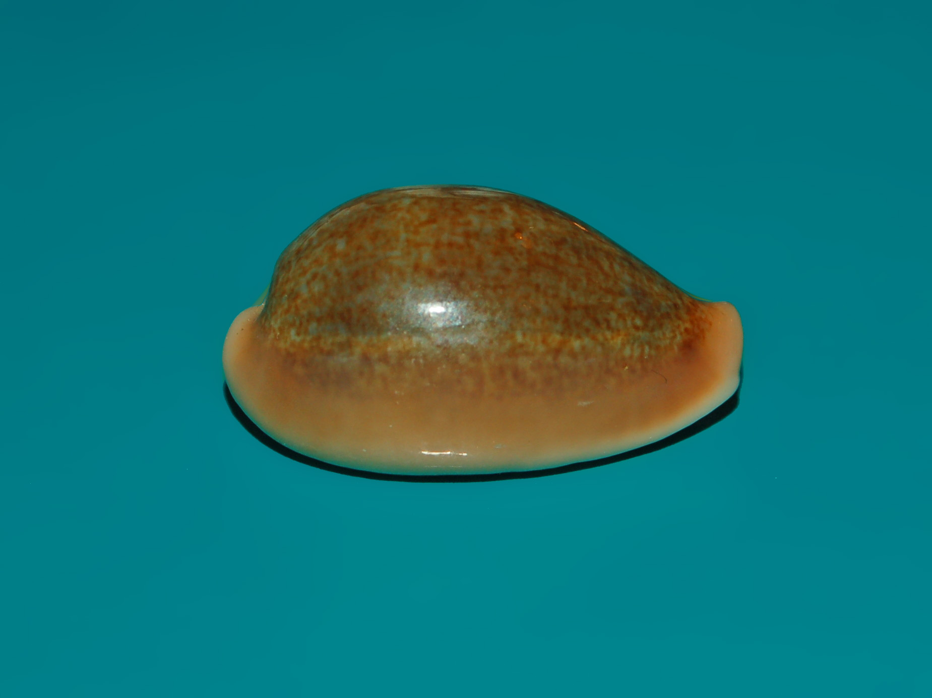 Erronea ovum - Solomon Islands